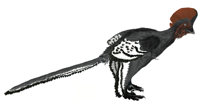 Illustration of the basal troodontid Anchiornis huxleyi, by Matt Martyniuk. Digital. Colors based on the patterns recovered by Li et al. 2010.